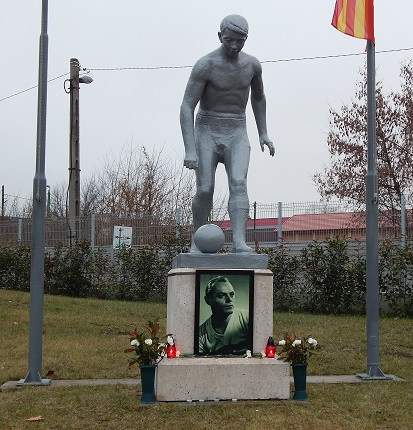 The statue was transferred at new place during construction of the stadium in 2014, It was moved closer to South gate and walkway.